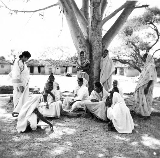 Caption: Mrs. P. J. Malagar (standing far left) talking to a group of widows in the widows home compound. Bishop and Mrs. Malagar were in charge of the home so it not only meant giving out food and clothing but fellowship and spiritual food as well. Citation: Mennonite Board of Missions Photographs, 1898-1967. IV-10-007.2 Box 4 Folder 11. Mennonite Church USA Archives - Goshen. Goshen, Indiana.